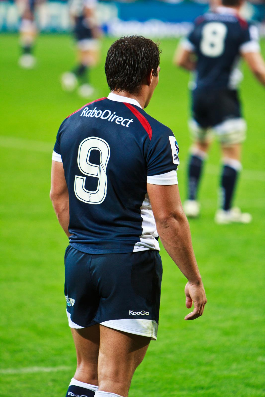 Rabodirect Rebels vs Sharks Rabodirect Rebels vs Sharks in the 2011 Super Rugby competition